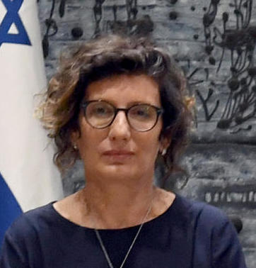 ביקור שחקנים ויוצרים ממעלה - בית הספר לטלוויזיה לקולנוע ולאמנויות בבית הנשיא בתמונה: עומדים מימין לשמאל- רחל אליצור היוצרת החרדית, הבמאי עמיחי גרינברג, השחקן הילאל כבוב, השחקנית יבגניה דודינה, ענת צוריה, אלירן מלכה. ריבלין. יושבים- נטע אריאלי מנהלת ביה"ס, נשיא מדינת ישראל ראובן ריבלין ורעייתו נחמה ריבלין.